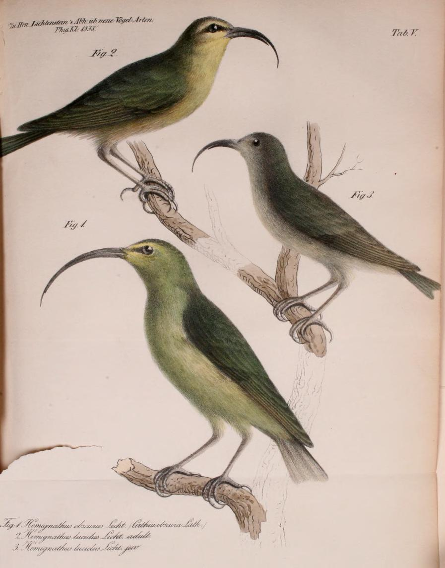 1. Lesser Akialoa (Hemignathus obscurus = Akialoa obscura) Nukupuu (Hemignathus lucidus): 2. Adult 3. Juvenile